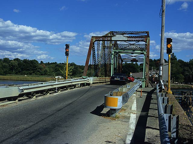 West portal of the Berkley-Dighton Bridge over the Taunton River showing the traffic lights regulating traffic.